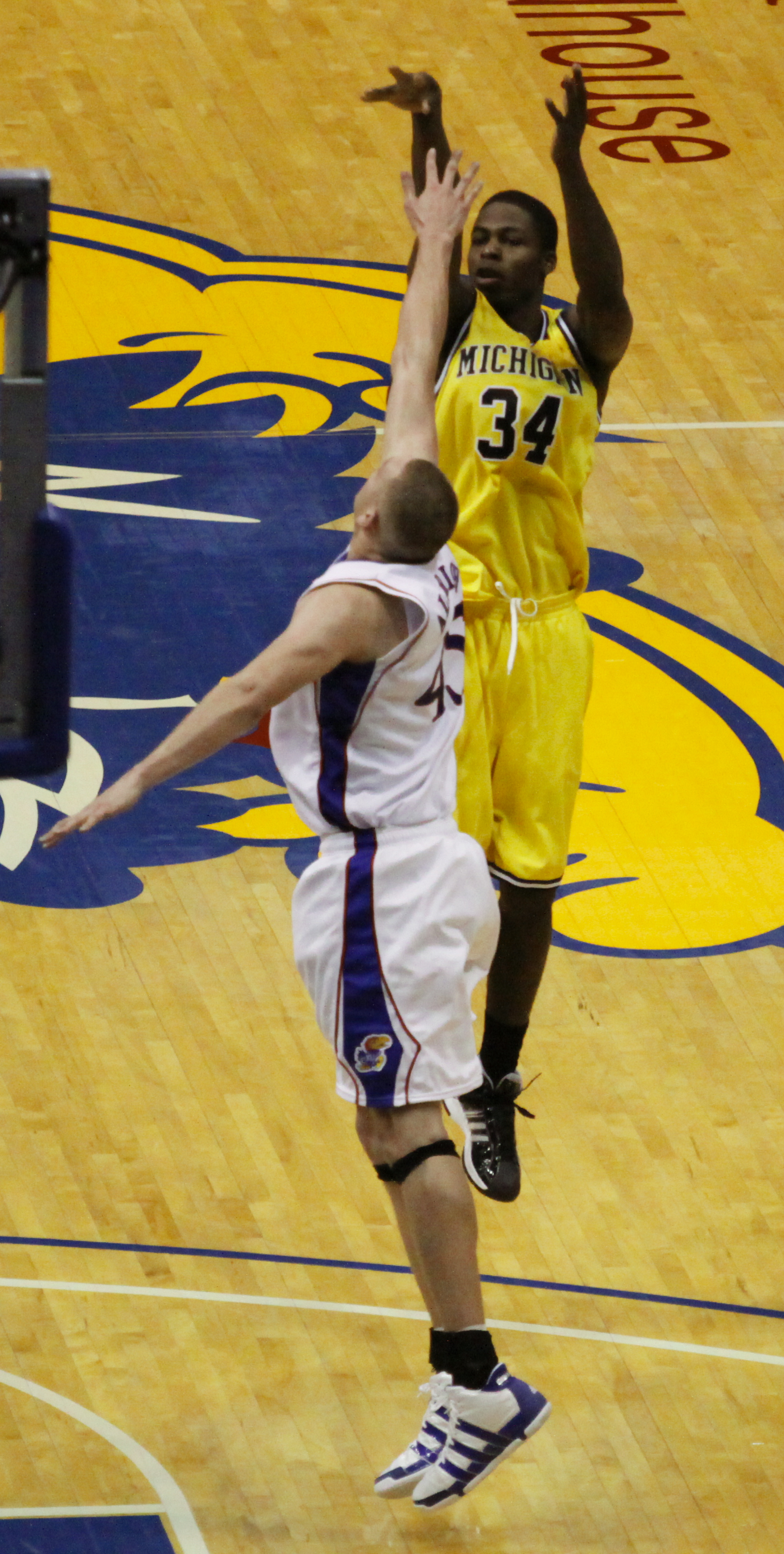 DeShawn Sims shoots over Cole Aldrich